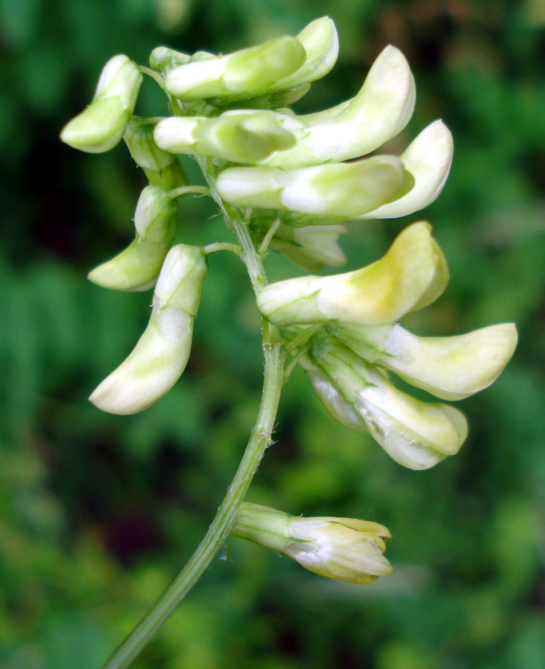 Vicia pisiformis (Unterfranken, Germany)